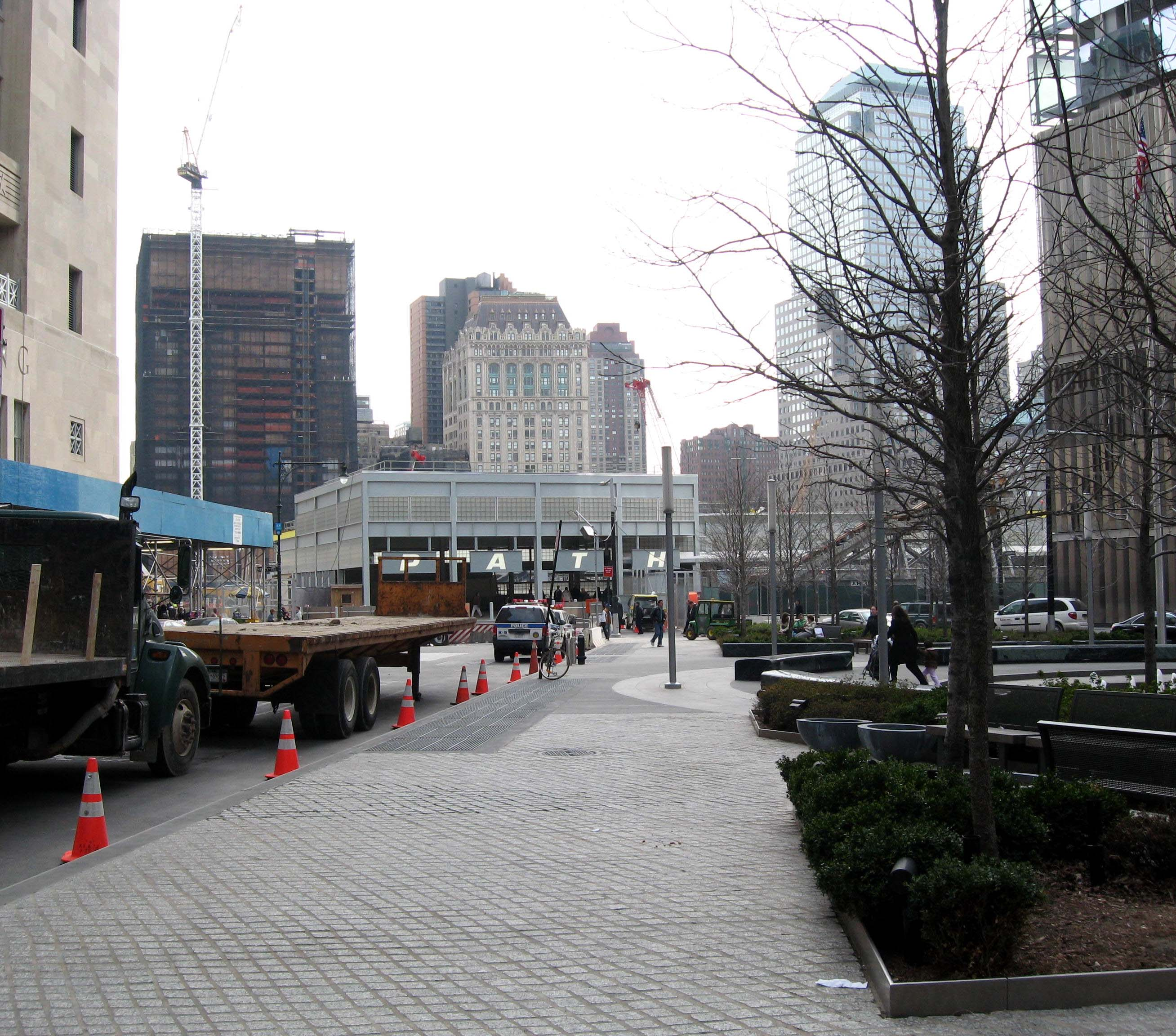 Looking south at WTC station temporary entrance at Vesey between West Broadway and Greenwich Street opened in April 2008